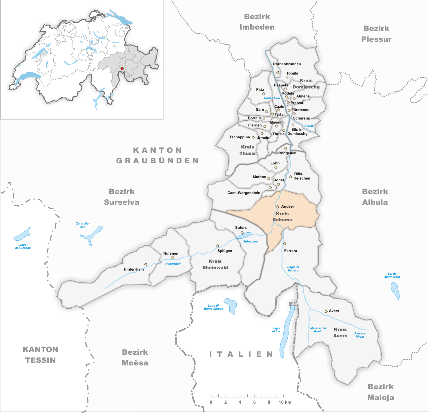 Municipality Andeer